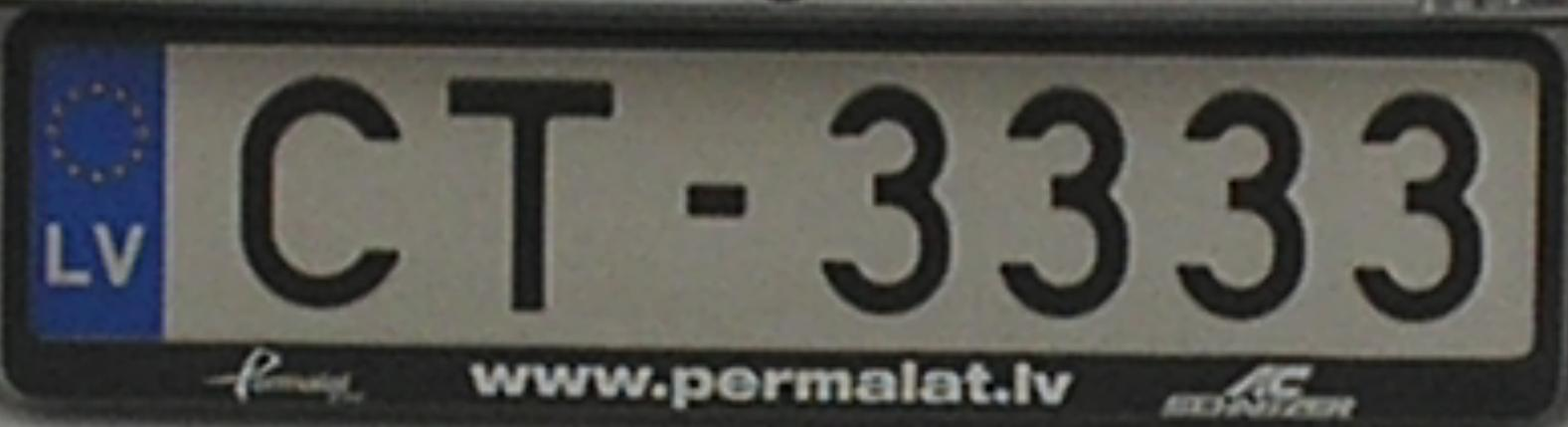 License plate from Latvia